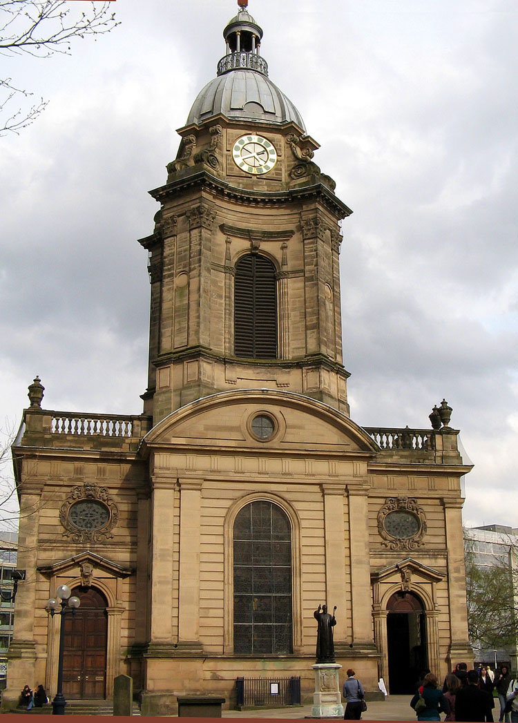 St Phillip's Cathedral (CoE) in central Birmingham, England.